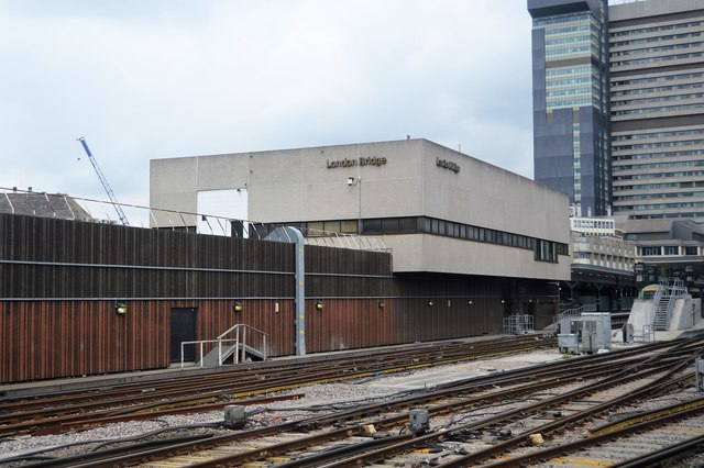 London Bridge Signalbox